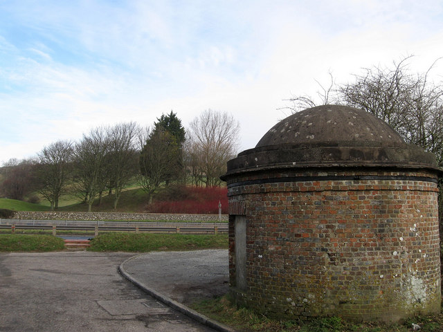 Ashcombe Toll House Curious relic from the age of the turnpike. Located at the original junction of the A27 and Ashcombe Hollow, the former has been moved few yards to the north the latter to the right has now been blocked off and a new route takes the lane down to Ashcombe Farm Roundabout. Originally there was a pair but the northern one has been lost to road widening. The existence of fireplaces within the structure has lead some to believe this was the domestic part of the tollgate, the collection area having been lost over time. A door is on the northern side and there are two windows either side, the roof was originally bricked in a circular fashion but was stolen in the 1940s before East Sussex County Council restored it in the 1950s. The tollgate opened in 1820 and probably went into disuse when the turnpike was wound up in 1871, after that ownership became a little blurred and was claimed by Sussex Heritage Society in 1996 and has never been contested. There are occasional open days to view the inside, for some inside views. Beyond the A27 and the flint wall are the grounds of Ashcombe House.